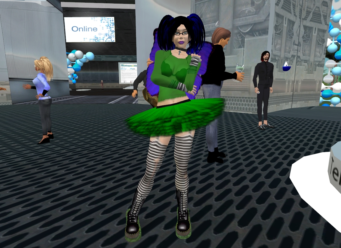 Taken by Signpostmarv on 2006/12/15 at the event held by IBM to celebrate the completion of their Second Life regions.